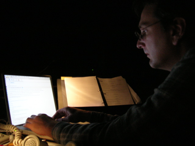 John Gromada in technical rehearsals 2004